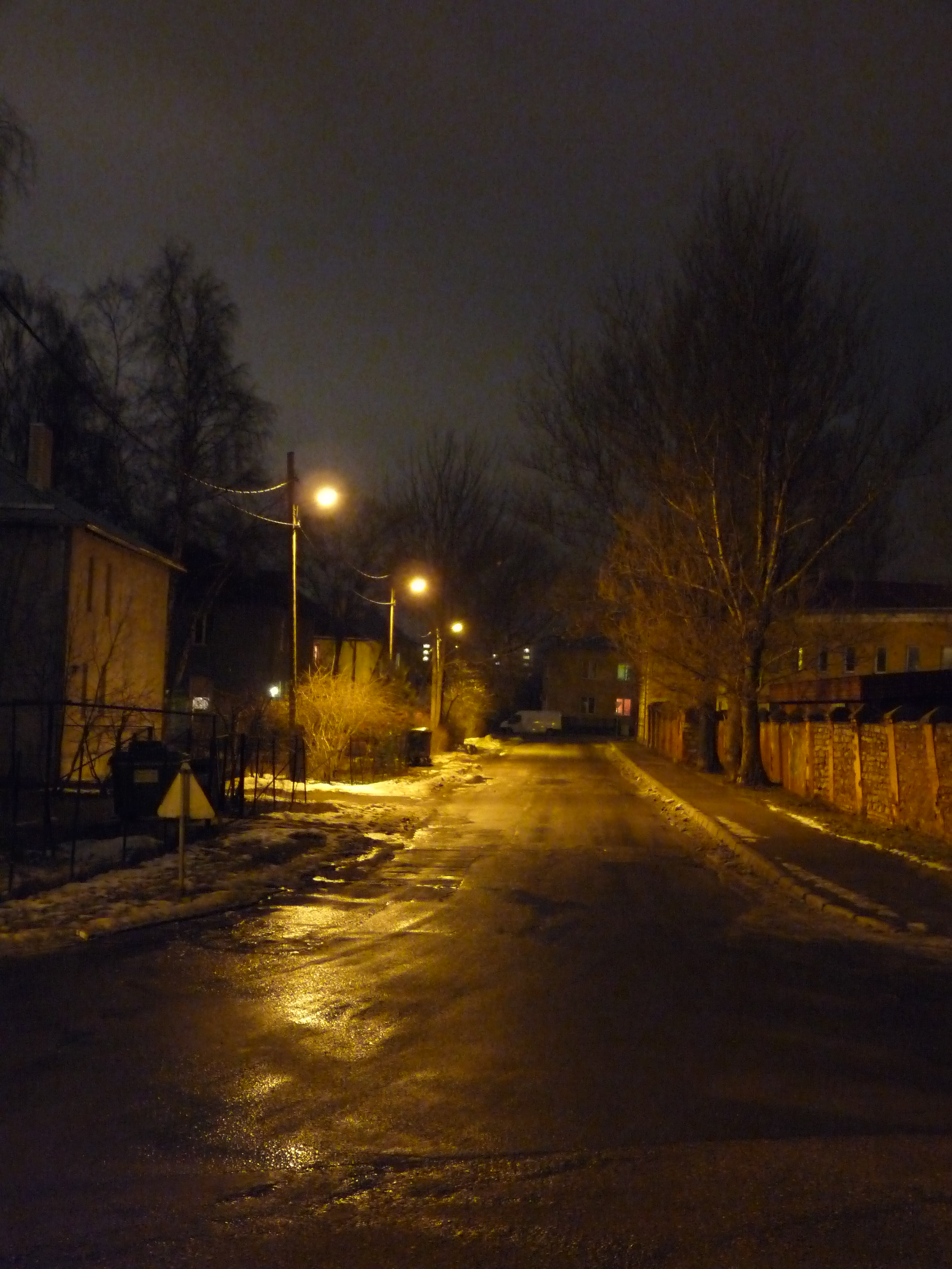 Luste street in Tallinn, Estonia